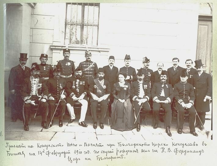 Bulgarian_consul_agency_in_Bitola_1910